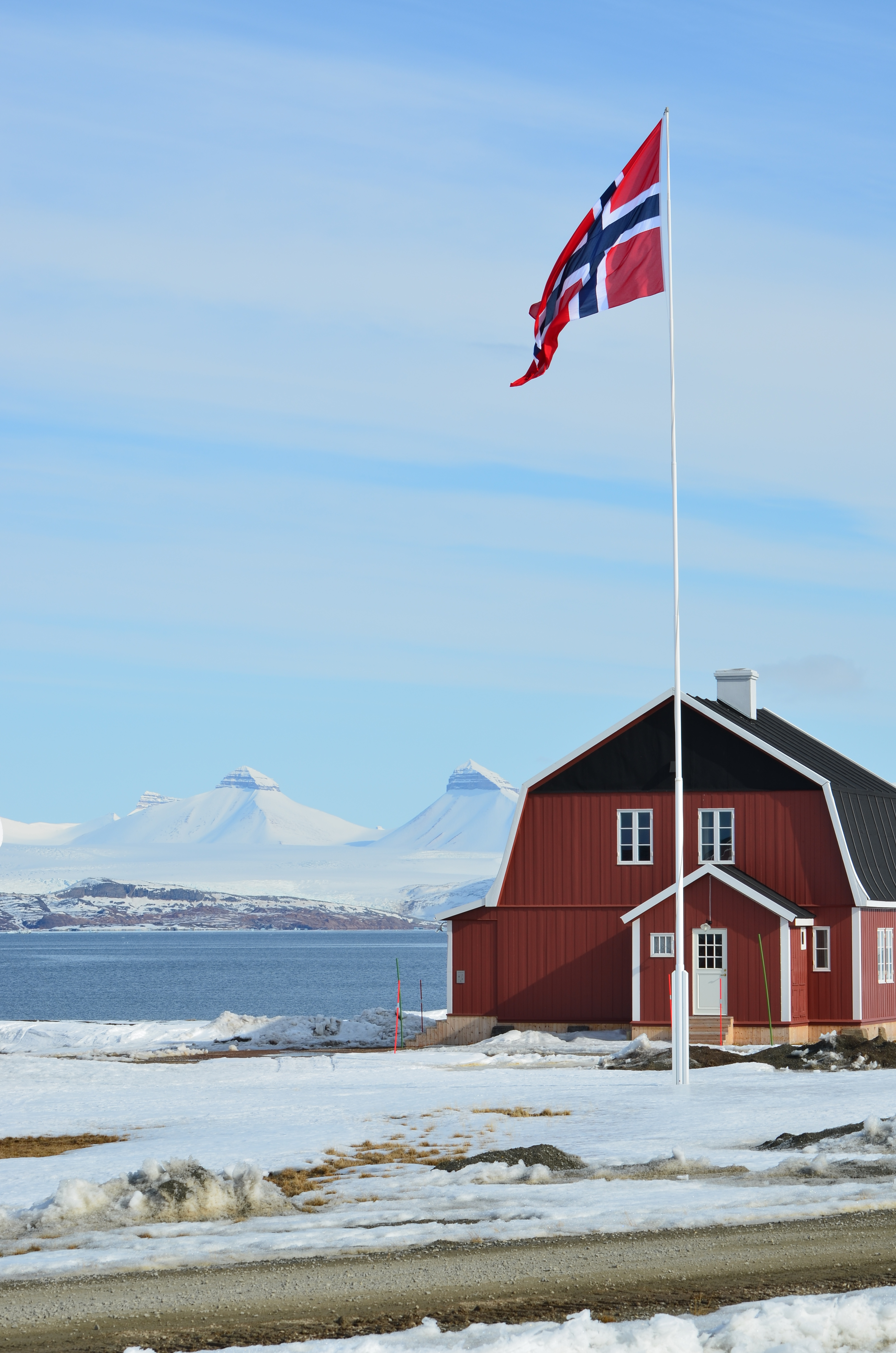 The house of Roald Amundsen during his stay and expeditions from Ny-Ålesund to the NorthpoleNorsk bokmål: Huset som var bostad till Roald Amundsen under hans vistelse i Ny-Ålesund innan Nordpols-expeditionen